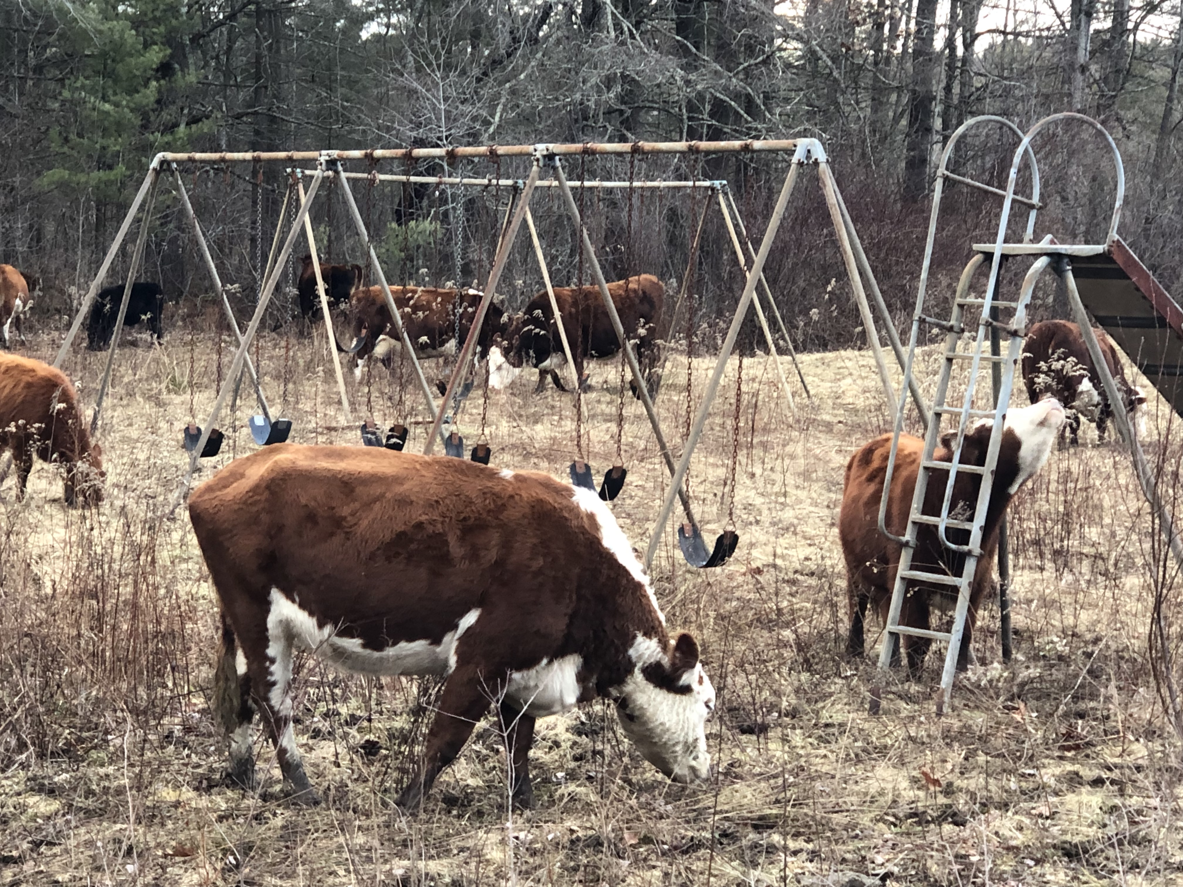 Cows graze around a playground at The Farm - New Marlborough, a school converted to a farm in 2017